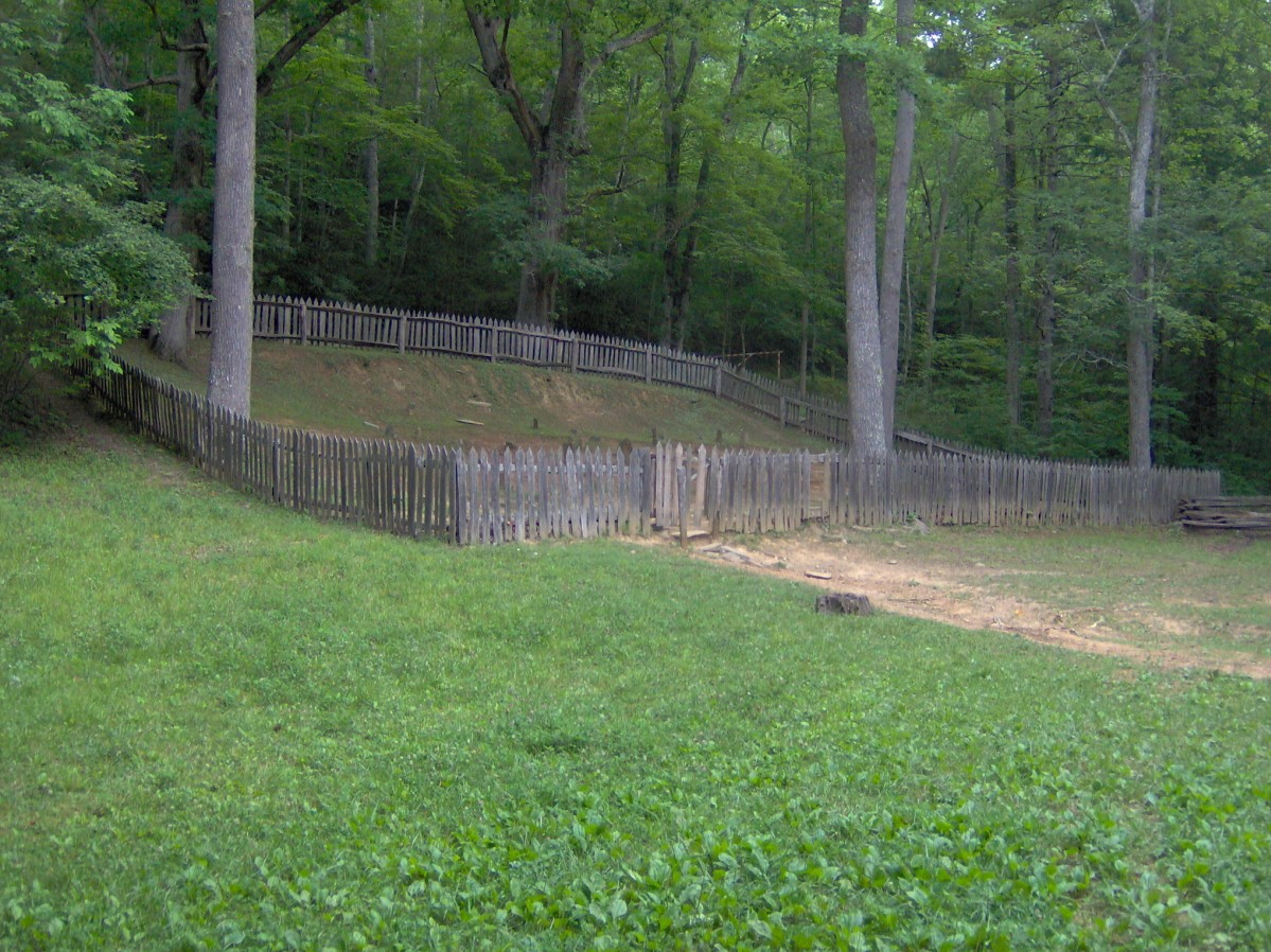 Greenbrier Cemetery at Little Greenbrier (Great Smoky Mountains). The cemetery faces the Little Greenbrier School.